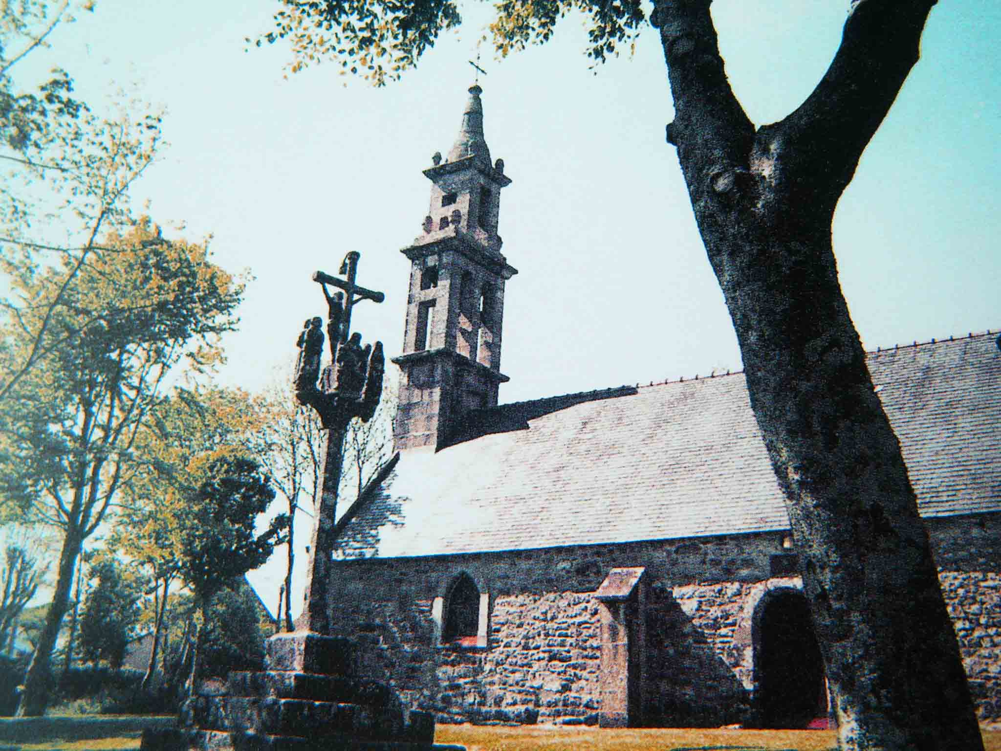 Chapel Langristin Plougastell Daoulaz